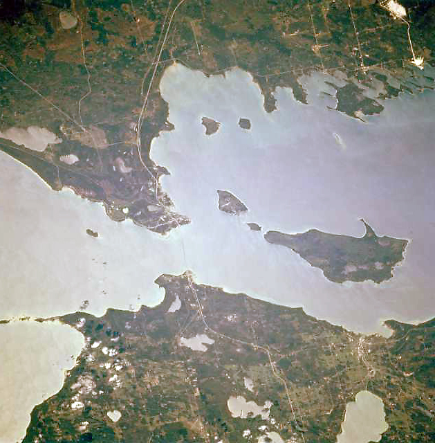 Straits of Mackinac, Michigan, U.S.A. October 1994.